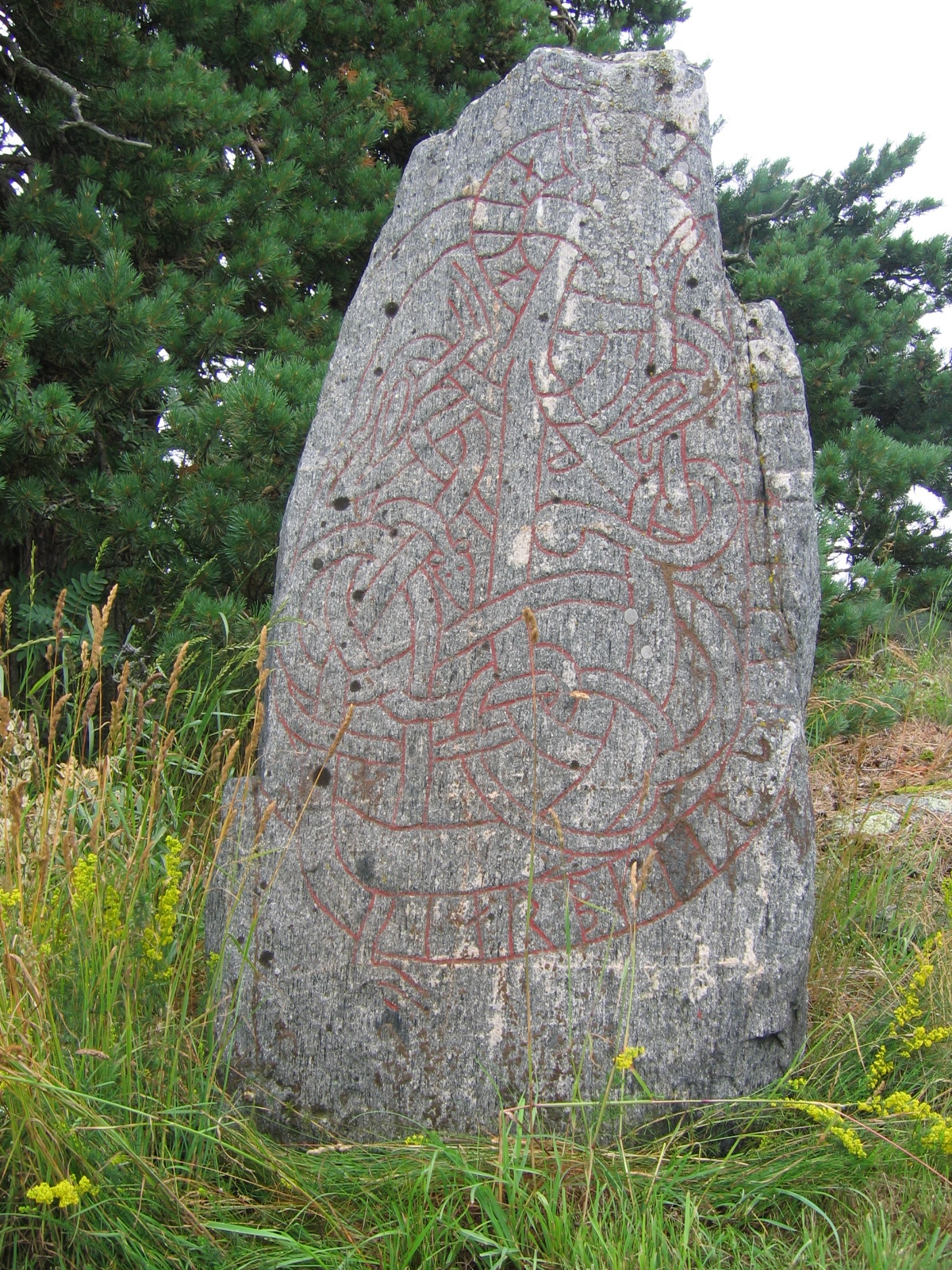 a fragment of a runestone (U 373)